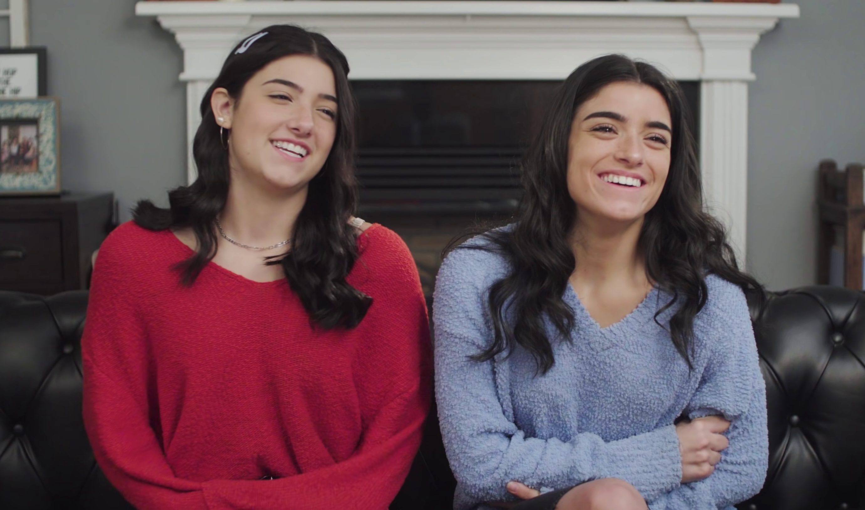 Charli and Dixie D'Amelio, screenshot from video: "TikTok stars Charli and Dixie D'Amelio on being bullied online - UNICEF"